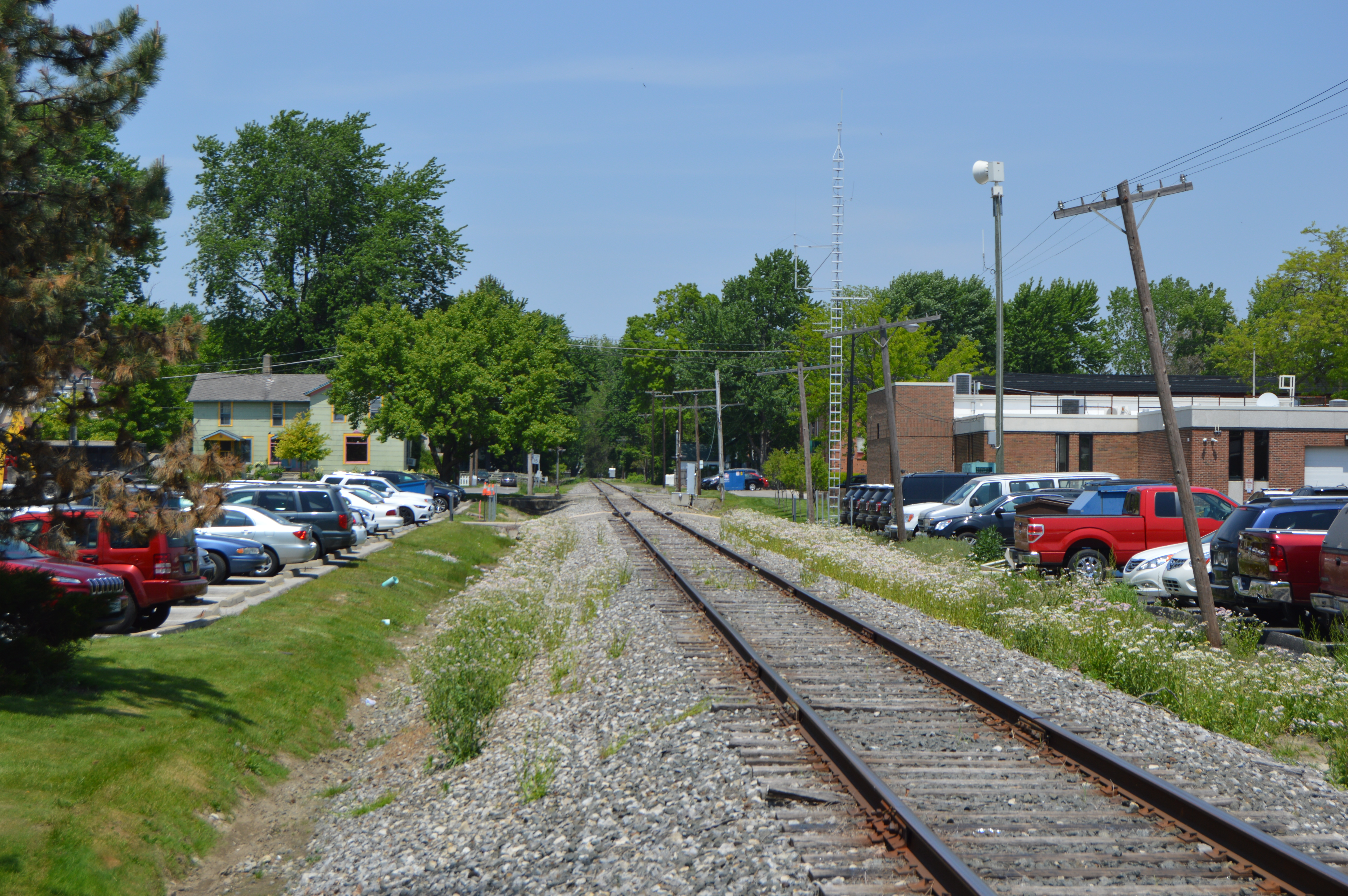 Looking north along a former Erie and Kalamazoo Railroad rail line from Monroe Street in Sylvania, Ohio, United States. This was part of the first railroad line west of the Allegheny Mountains.